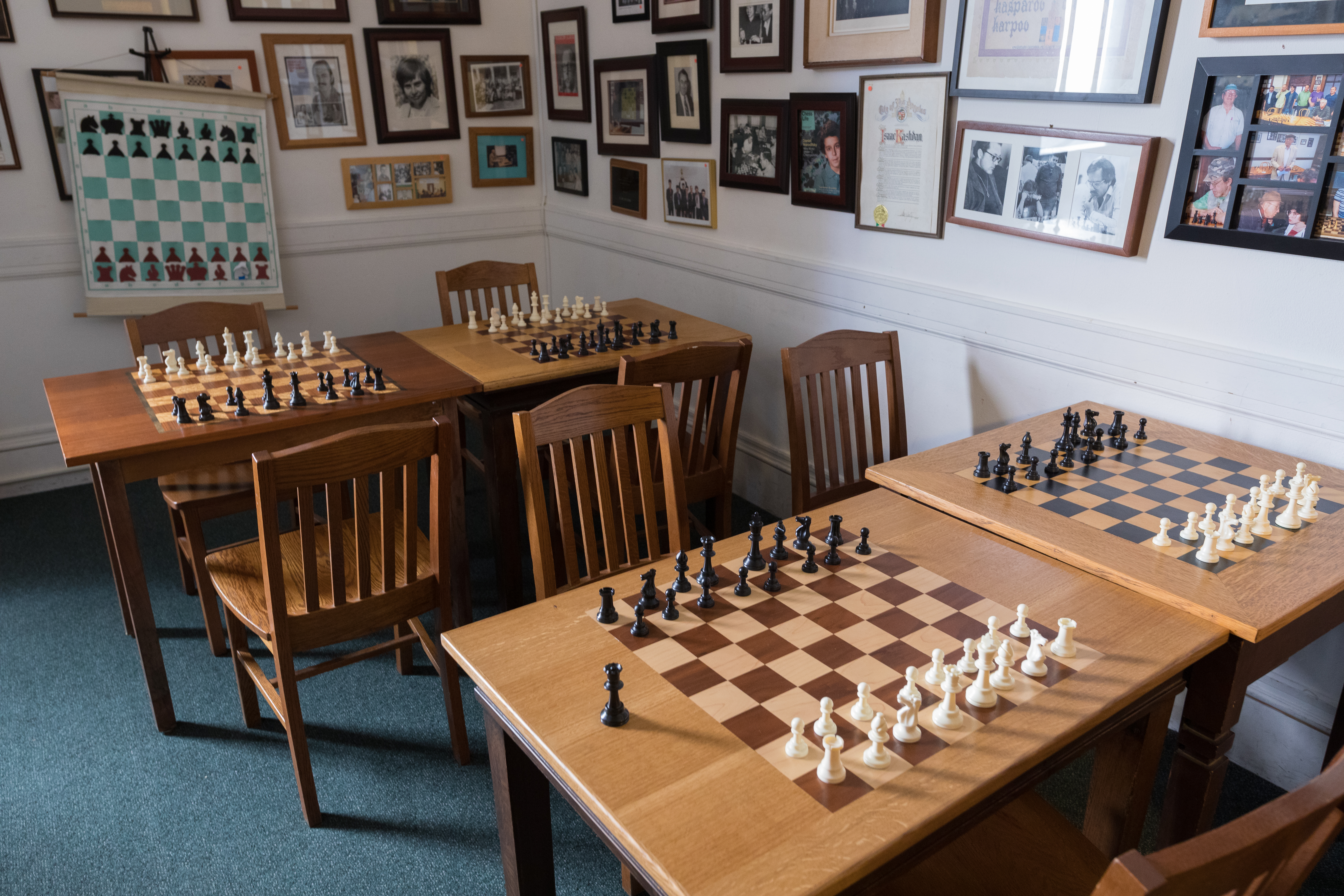 Chess Club Annex, Room 407, at the San Francisco Mechanics’ Institute in January 2020